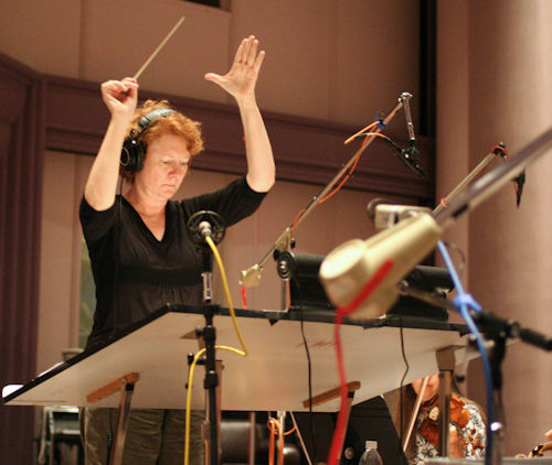 Conductor Barbara Day Turner at Skywalker Sound in Marin County, California.